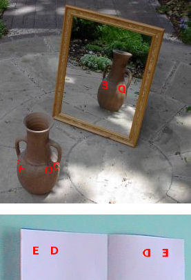 The Mirror.jpg adapted for show enantiomer letters